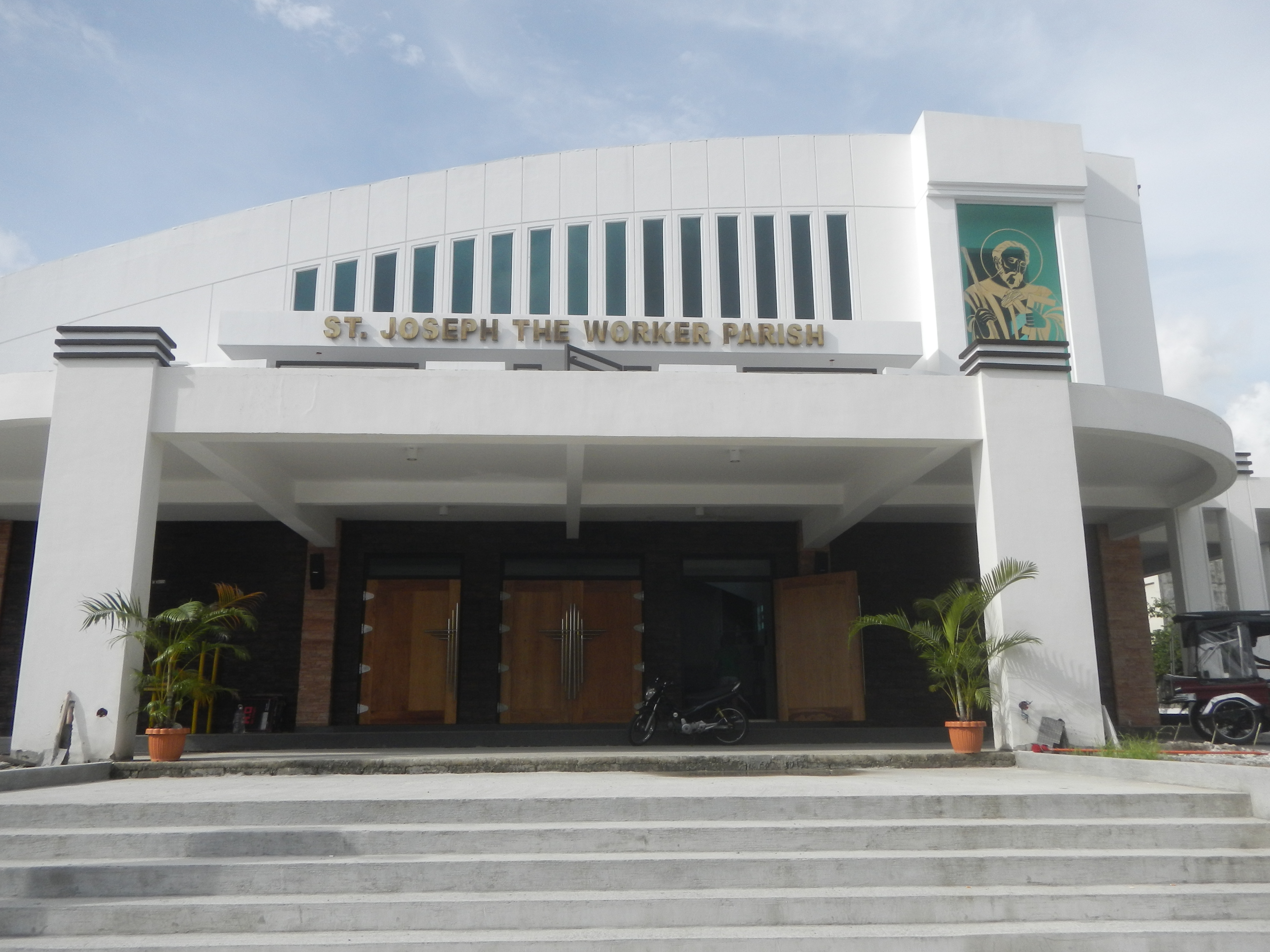 Construction of the Saint Joseph the Worker Parish Church (Gladiola Street, Greenland Executive Village, San Juan, Cainta, Rizal) Academia de San Jose of Cainta (Gladiola Street, Greenland Executive Village, San Juan, Cainta, Rizal) Roman Catholic Diocese of Antipolo Cainta Greenland Executive Village; San Juan, Cainta Barangay San Juan 14°34'26"N 121°7'35"E Cainta, Rizal (Note: Judge Florentino Floro, the owner, to repeat, Donor Florentino Floro of all these photos hereby donate gratuitously, freely and unconditionally all these photos to and for Wikimedia Commons, exclusively, for public use of the public domain, and again without any condition whatsoever).